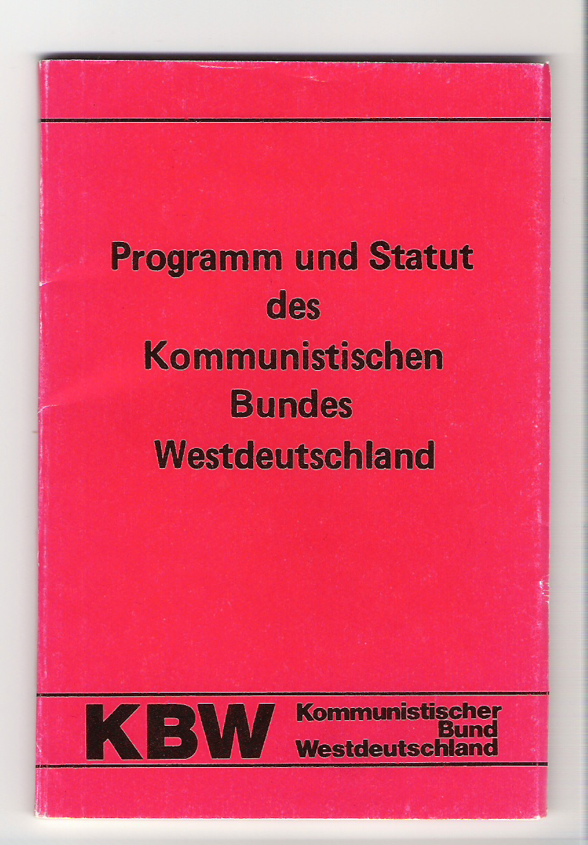 Program and statute of KBW, even scanned